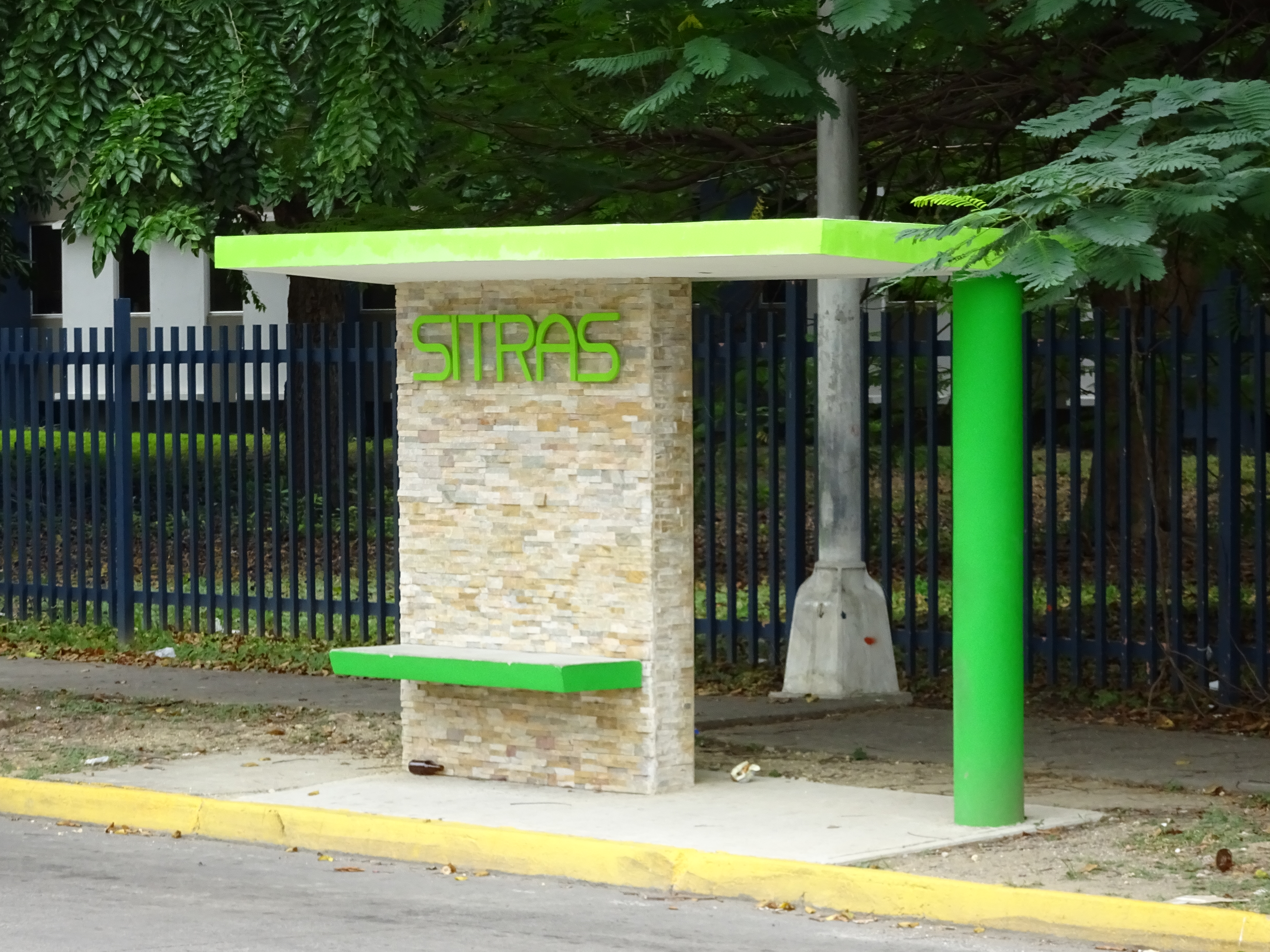 Parada del SITRAS en Avenida Las Americas, Bo. Canas Urbano, Ponce, PR (DSC00534)